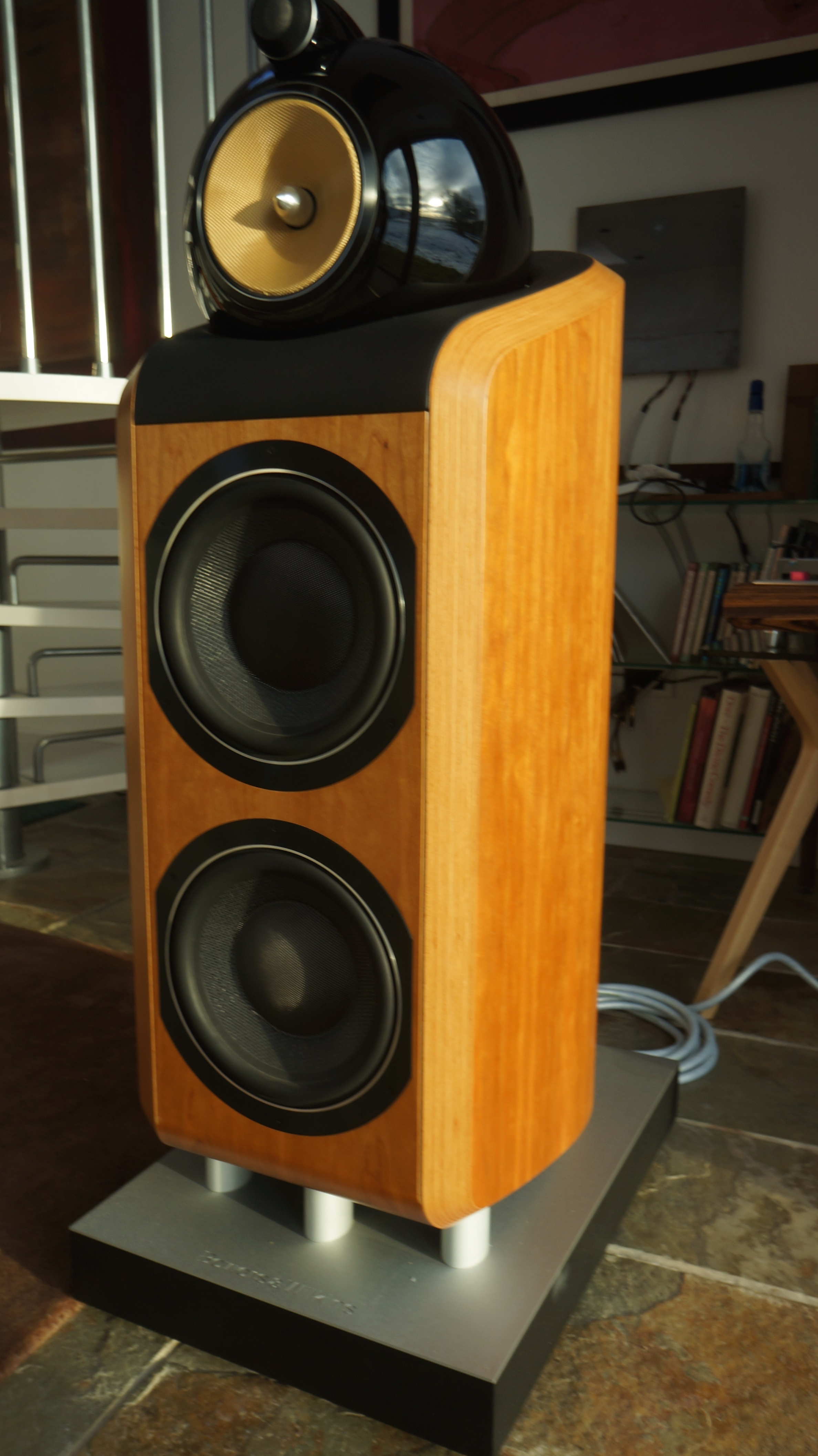 Normally I take a few days to decide but this was an instant win. Devialet plus B&W = Win